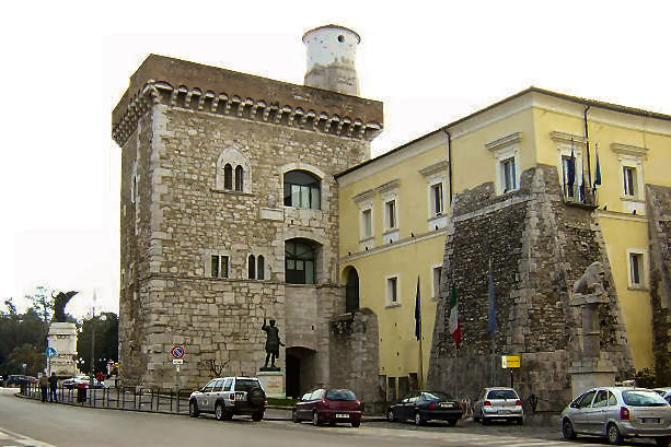 Rocca dei Rettori (also known as Castle of Manfredi), a castle in Benevento, southern Italy. It currently houses the Museum of the Samnium.